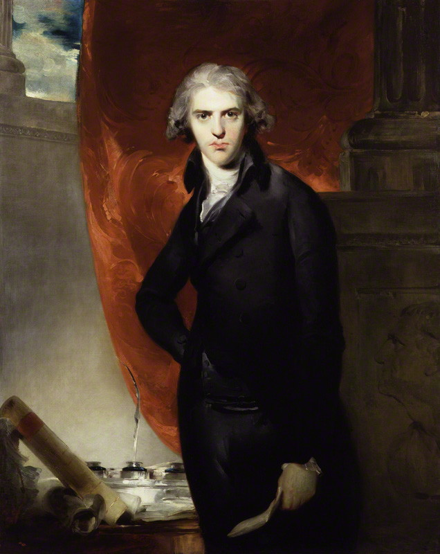 Robert Jenkinson, 2nd Earl of Liverpool (1770-1828)